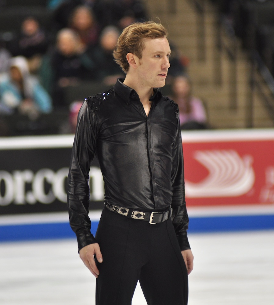 Figure skater Ross Miner at the beginning of his free skate at the 2016 US championships in St. Paul, MN